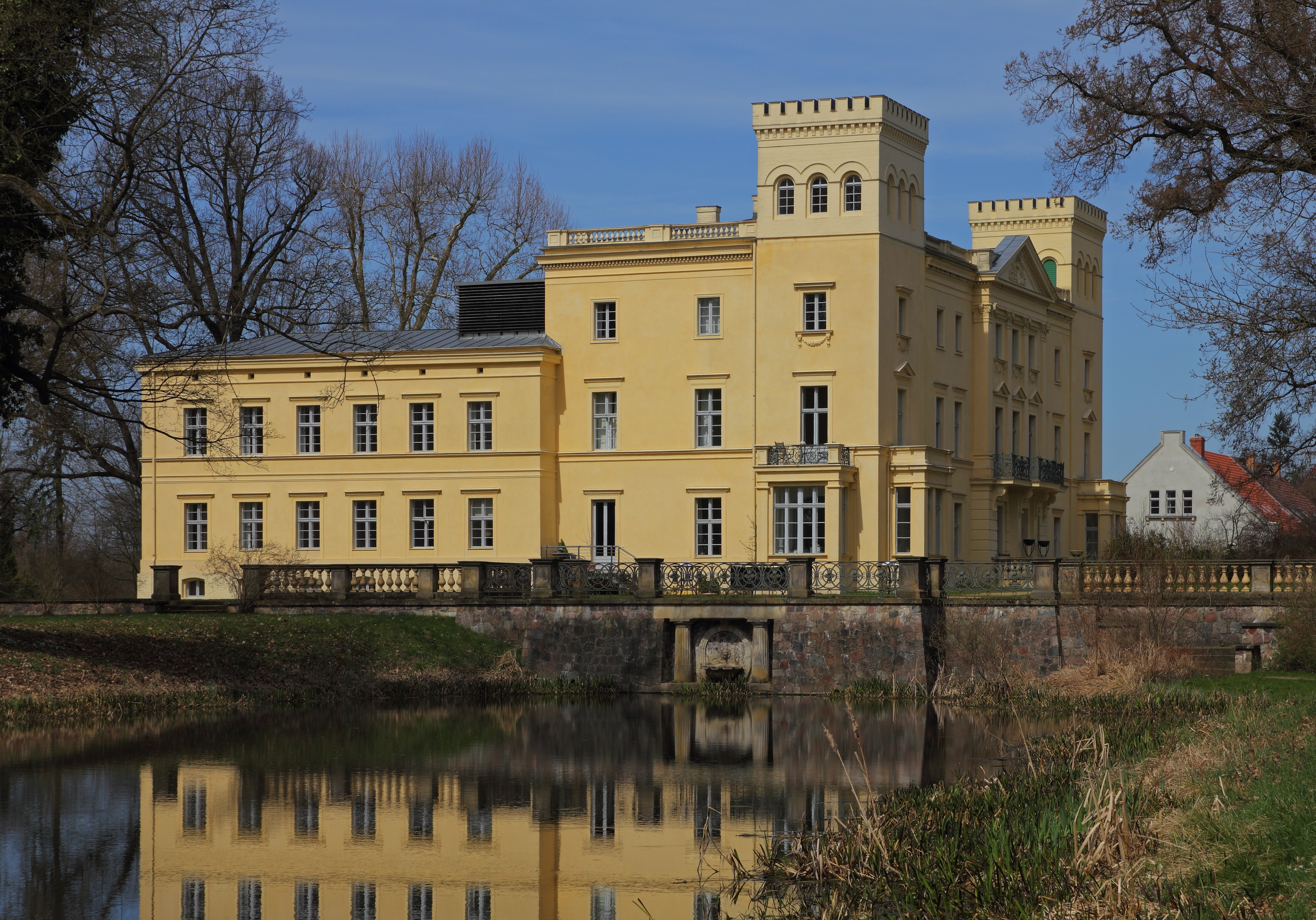 Estate and park in Steinhöfel, Brandenburg, Germany